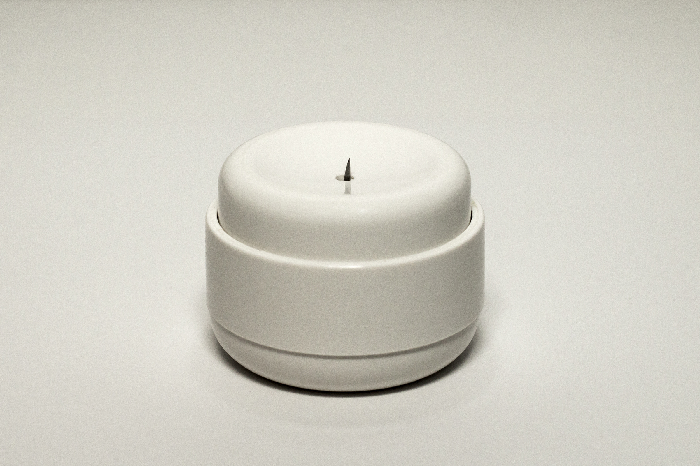 An egg piercer, a kitchen tool to pierce an egg to release the sulfur pocket in order to prevent it from expanding while boiling. Depicted is the "push down" variant, in pushed down state to reveal the pin.